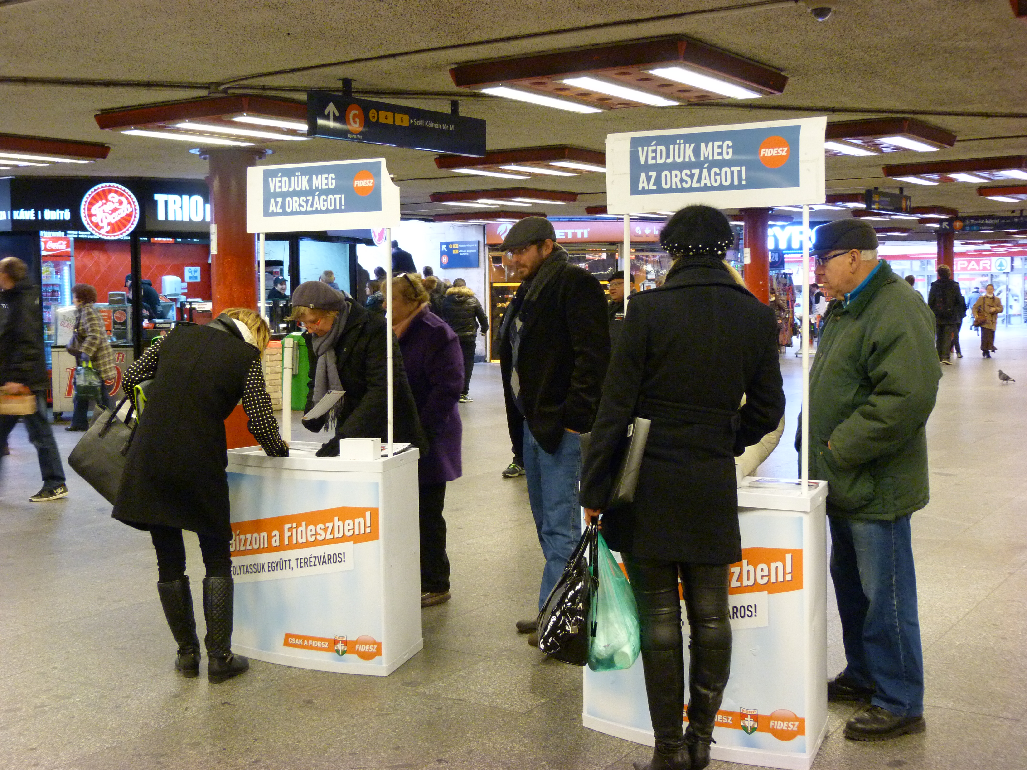 Live on the 18th of November, 2015. Nyugati tér. Petition signing (Migrant settlement rate).